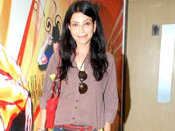 Bollywood actress Shilpa Shukla at the audio release of her 2011 film 'Bhindi Baazaar Inc.'